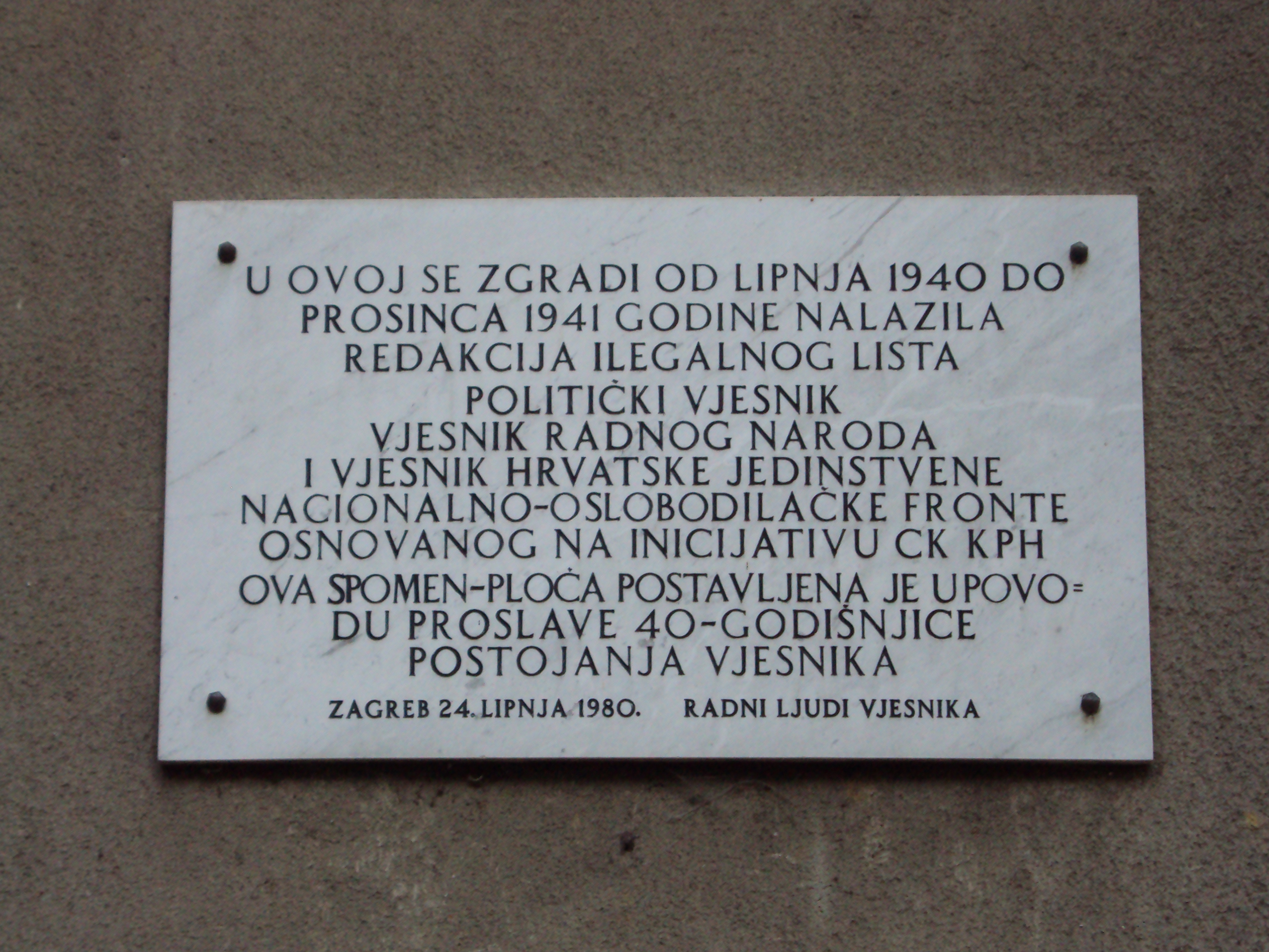 Memorial plaque at the house where was the illegal redaction of newspaper "Vjesnik" in Zagreb from 1940 to december of 1941.